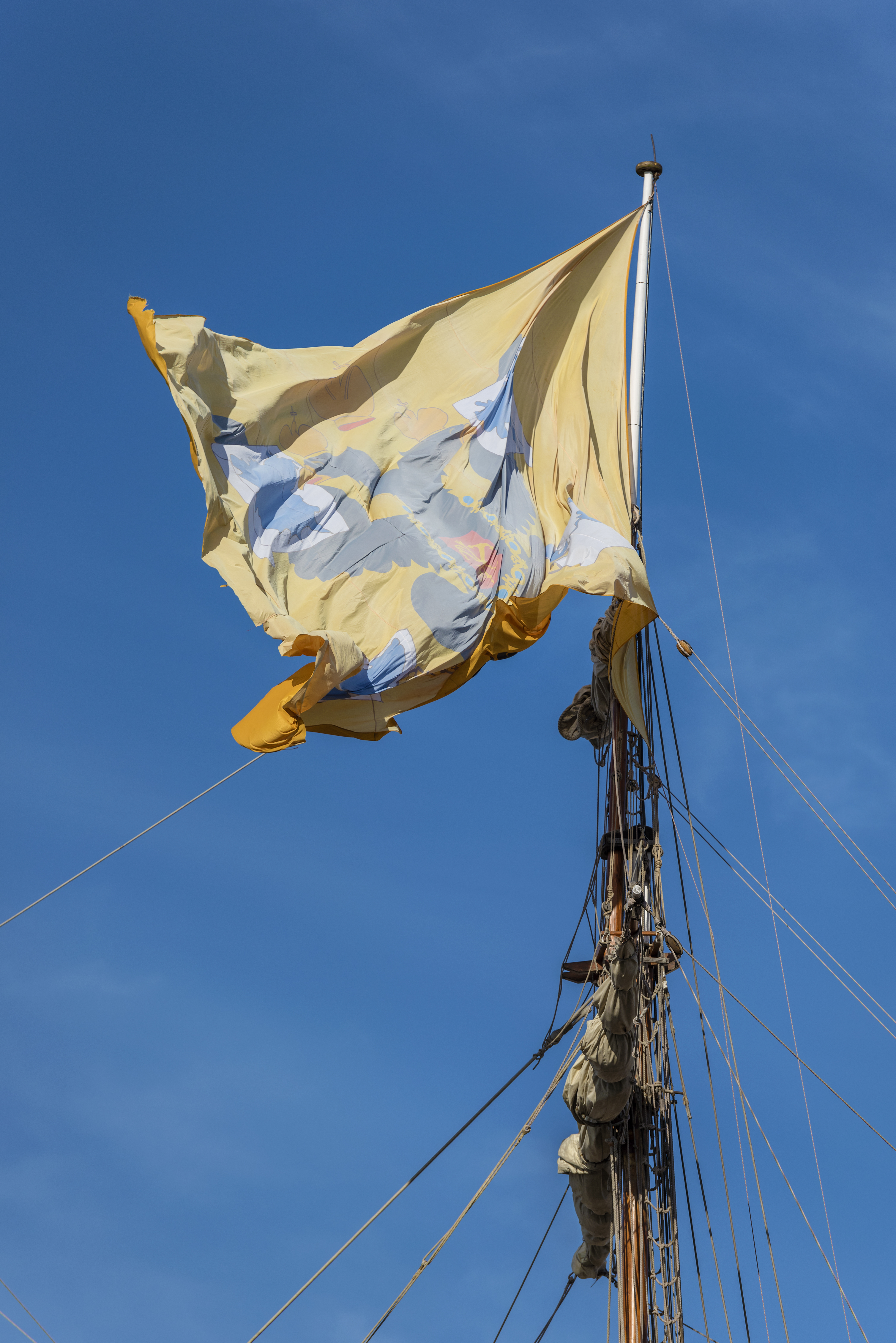 One of the masts of the Shtandart (ship, 1999). During the event "Escale à Sète 2016". Sète, Hérault, France